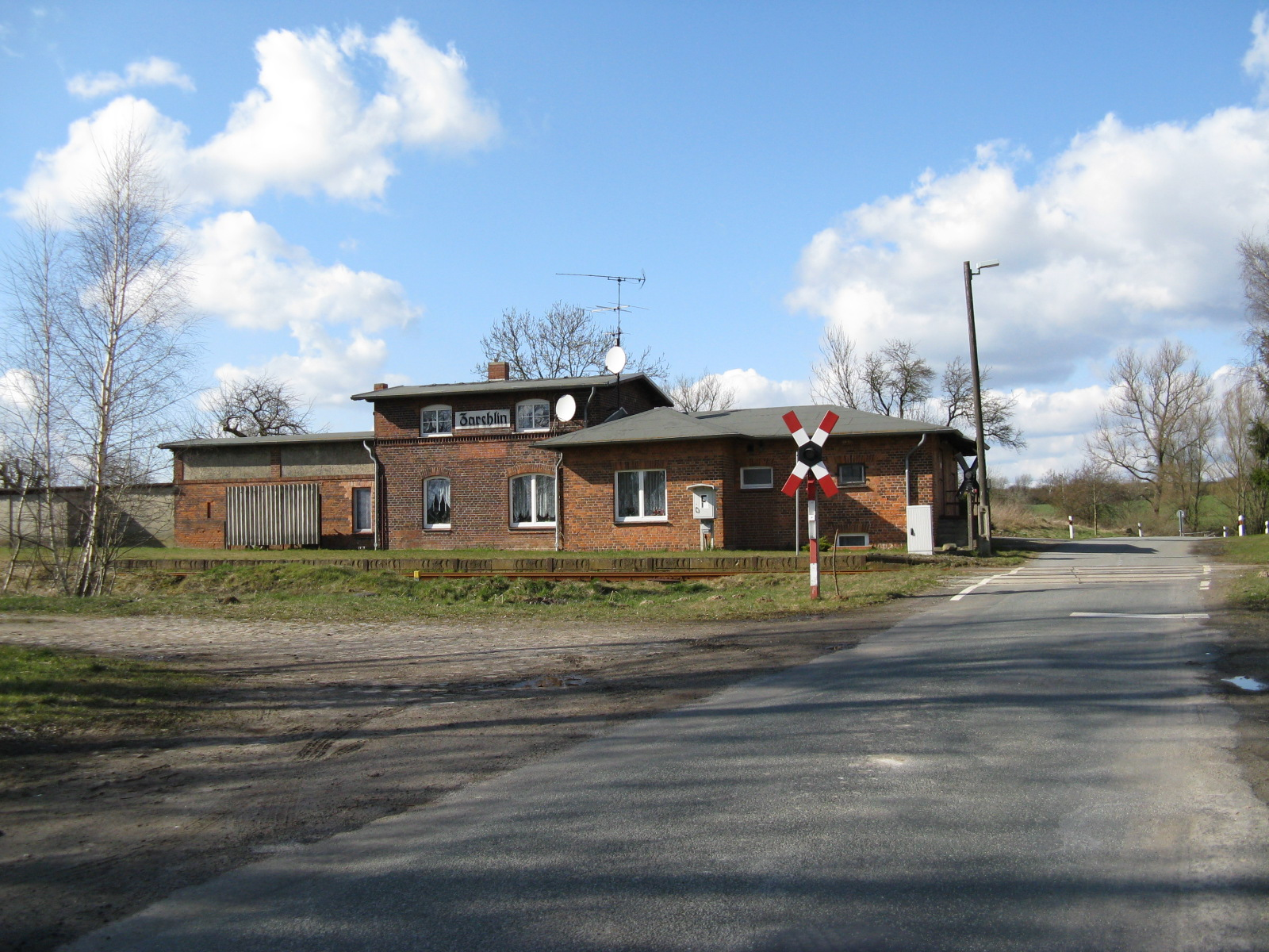 Train station in Zarchlin,district Ludwigslust-Parchim, Mecklenburg-Vorpommern, Germany